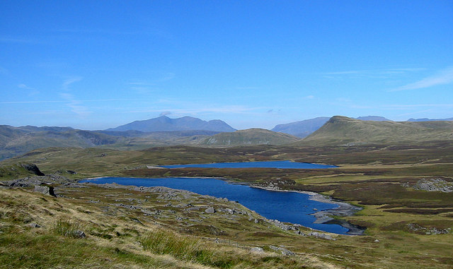 Llyn Bowydd. Llyn Bowydd and Llyn Newydd from the upper northern slopes of Manod Mawr. The peak at middle right is Moel Penamnen with the Snowdon massif and the Glyder range beyond in the distance.